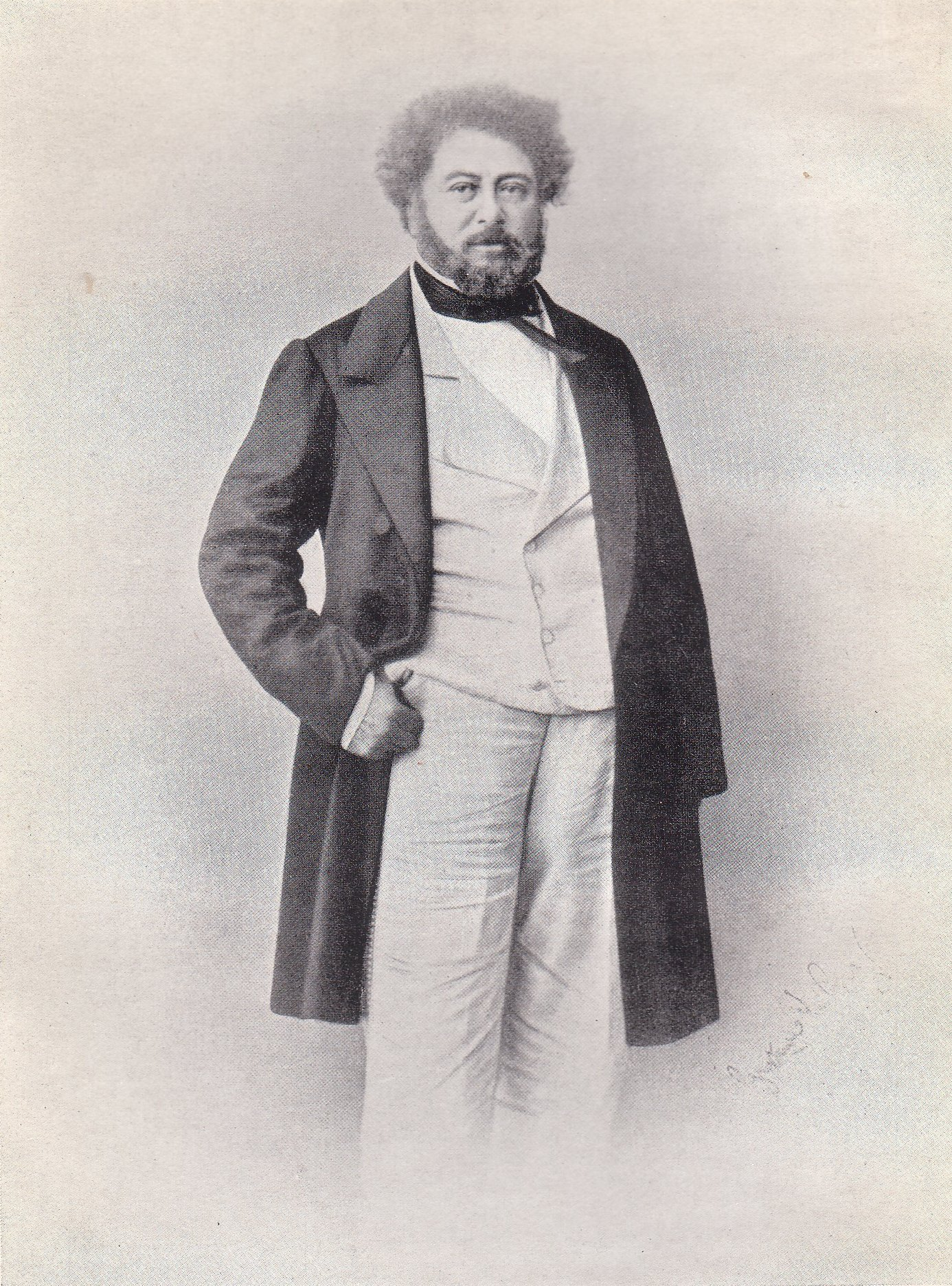 Alexandre Dumas (father)